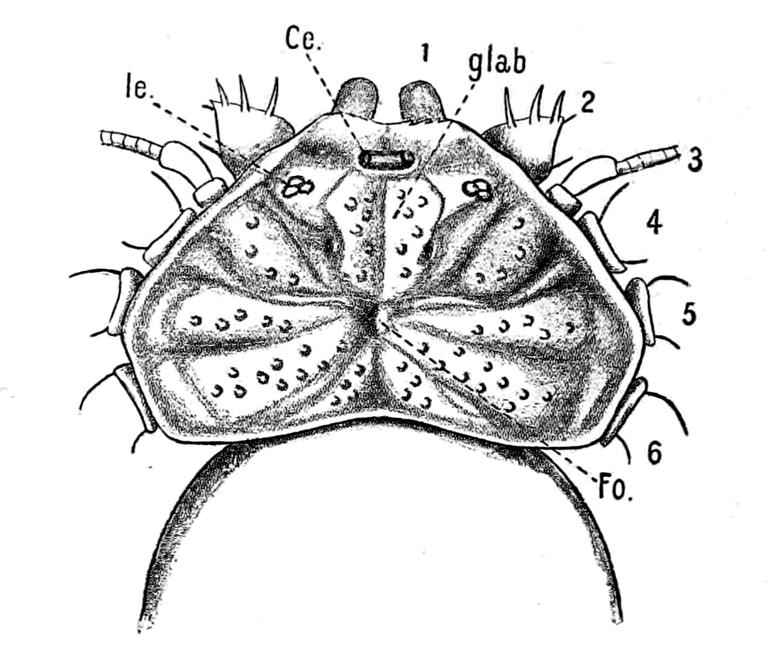 Fig. 107.—Phrynus Margine-Maculata. Ce., median eyes; le., lateral eyes; glab., median plate over brain; Fo., fovea.